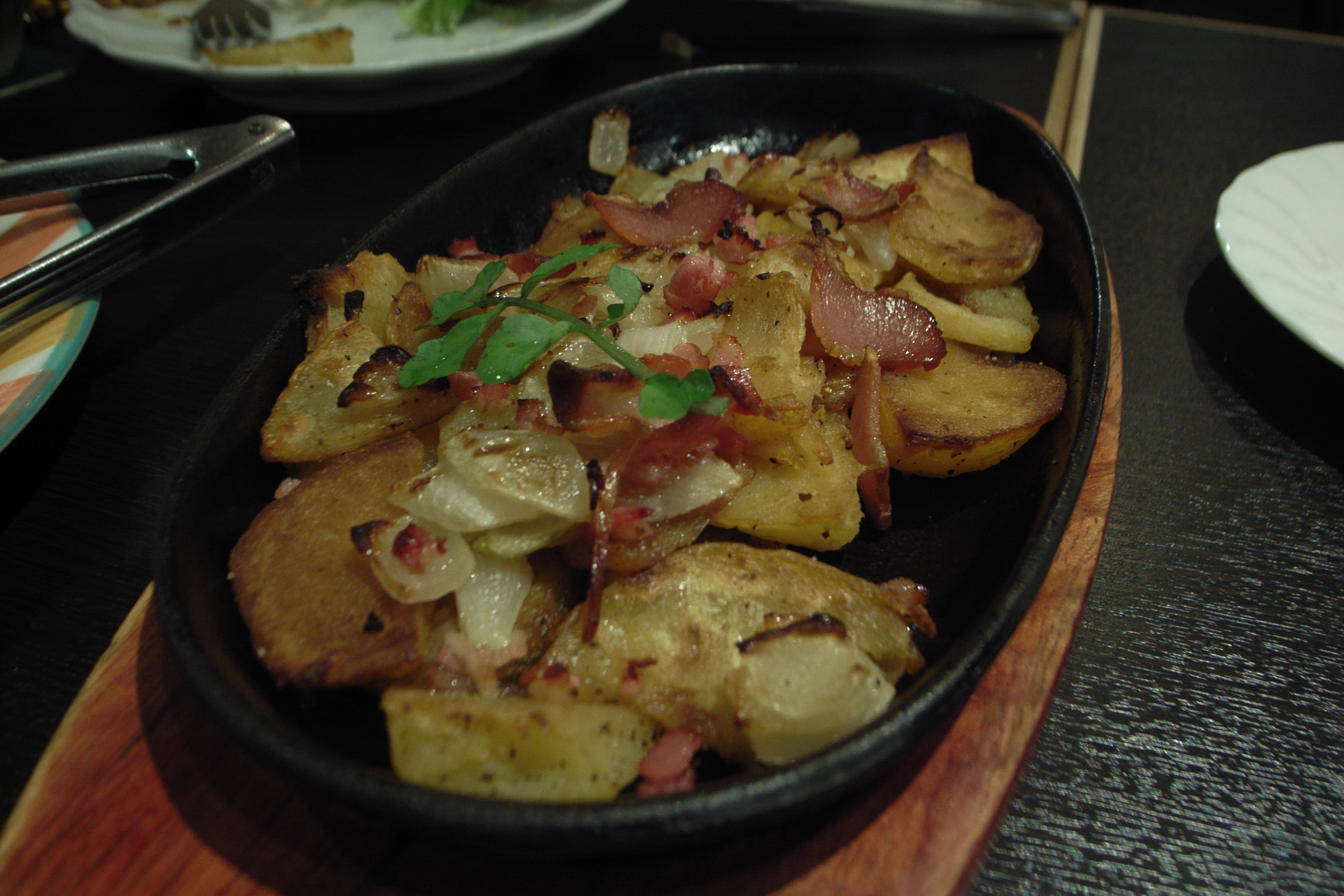 German Potato